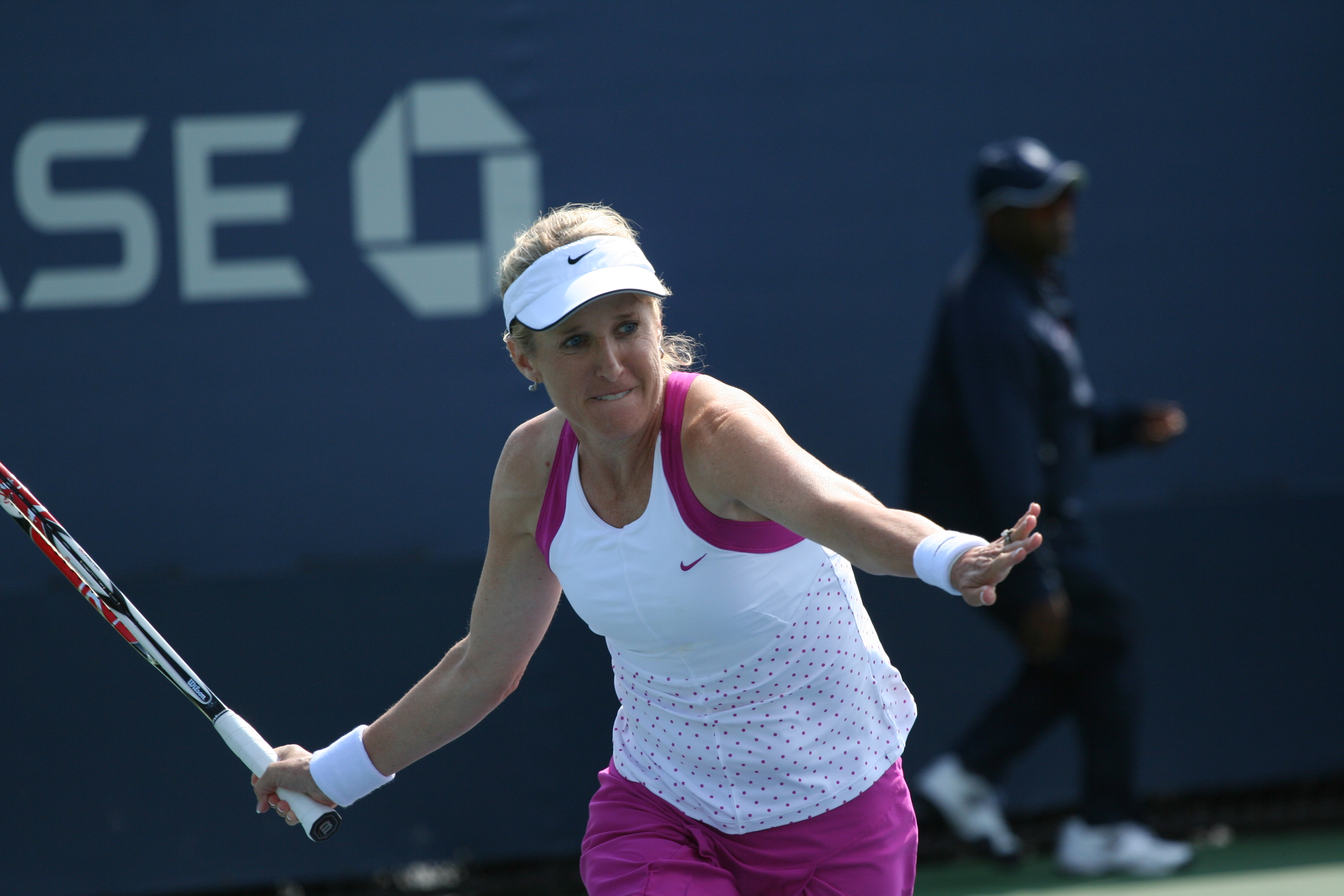 U.S. Open Champions Team Tennis Wednesday, Sept. 9, 2009